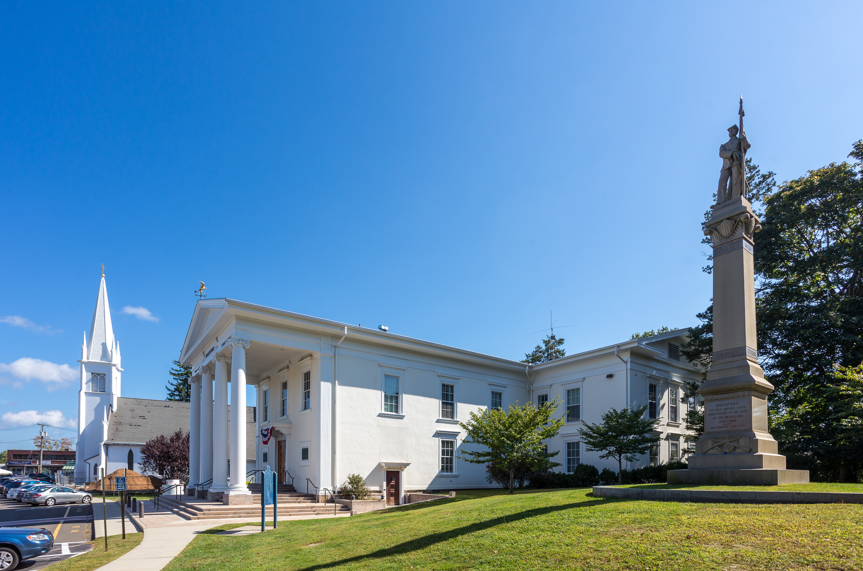 Branford Town Green 1019 Main Street Branford, CT